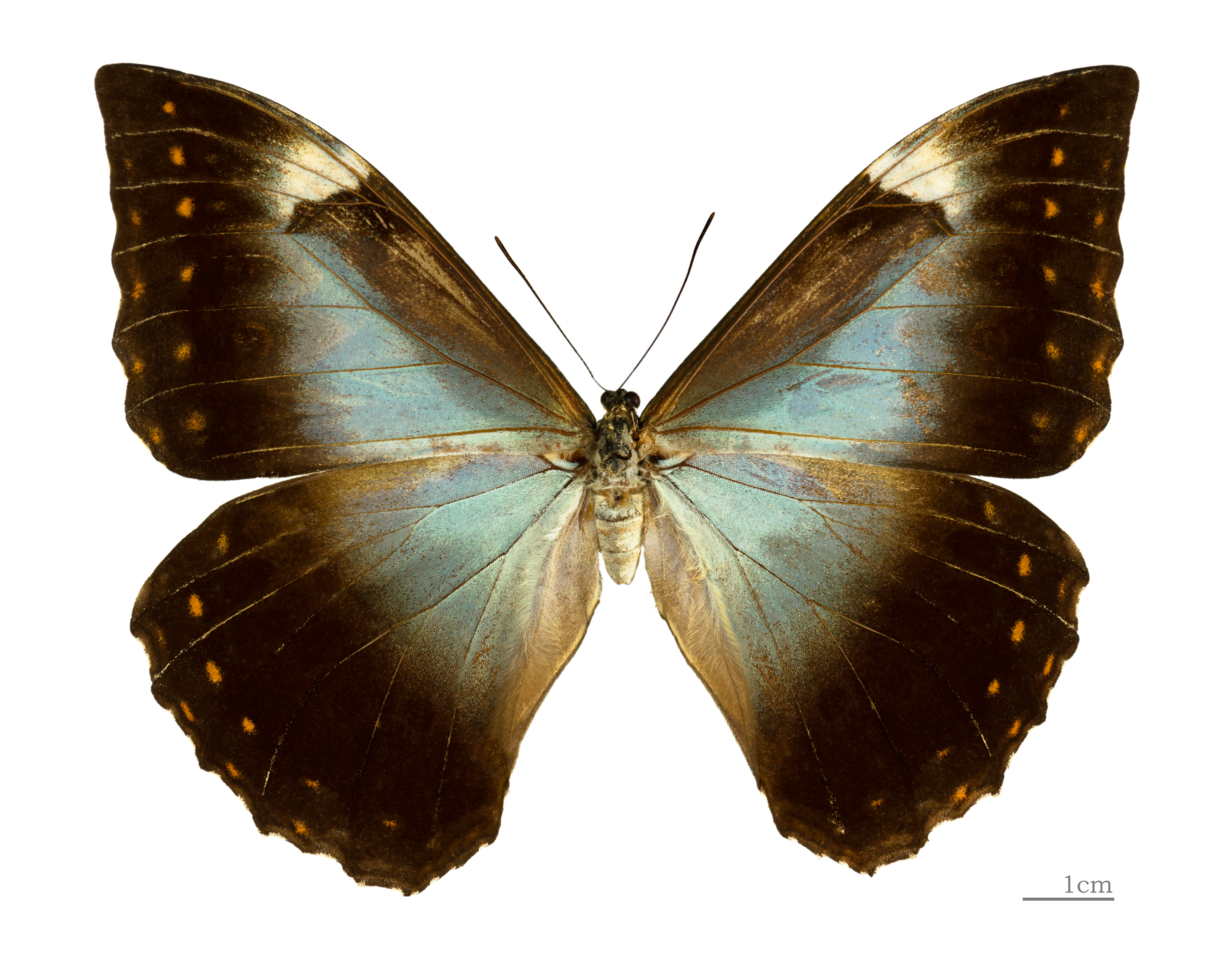 Morpho telemachus telemachus - Dorsal side